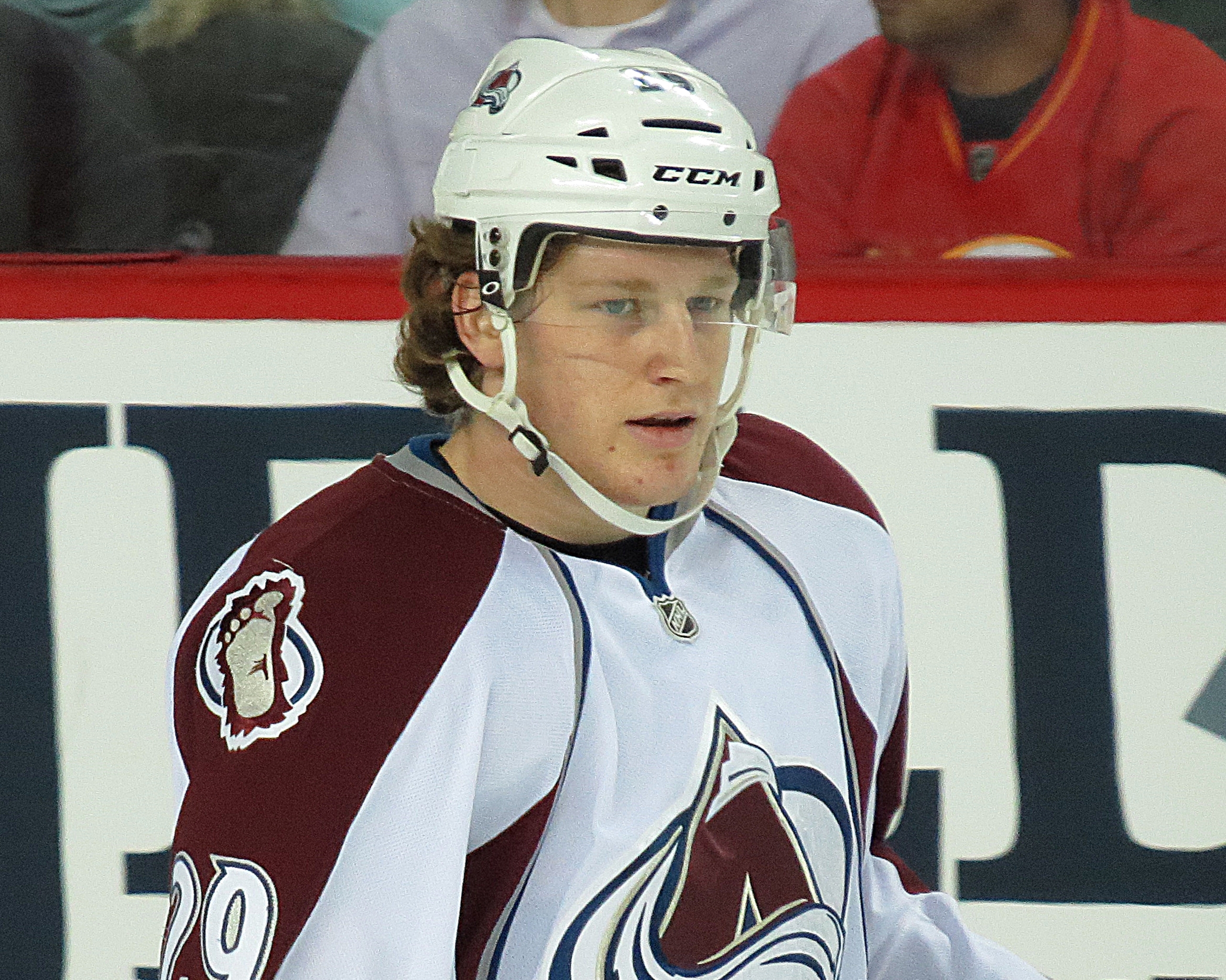 Nathan MacKinnon at Colorado Avalanche.